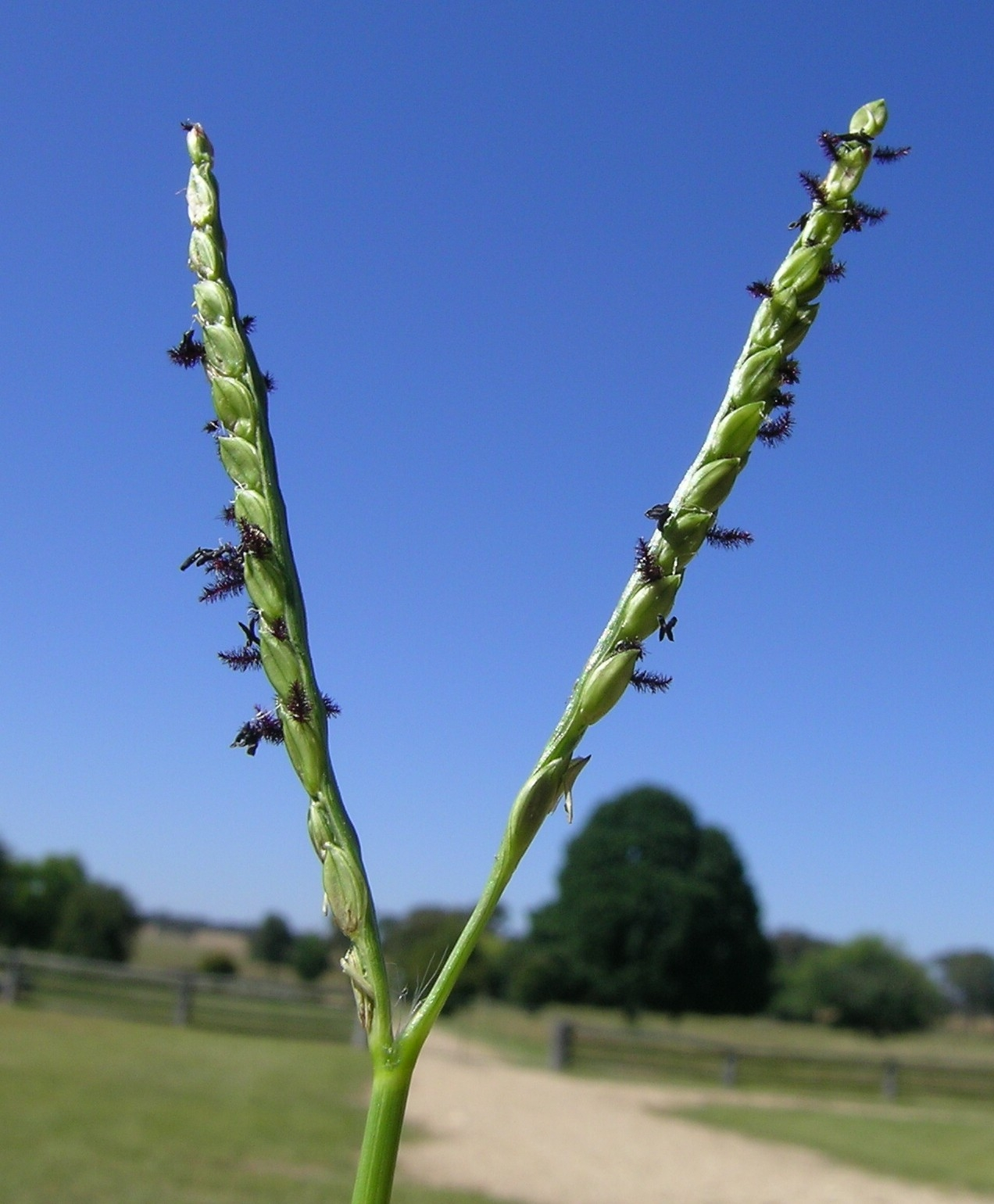 Flowerheads are digitate with 2 (rarely 3 or 4) short (3-7 cm long) branches.